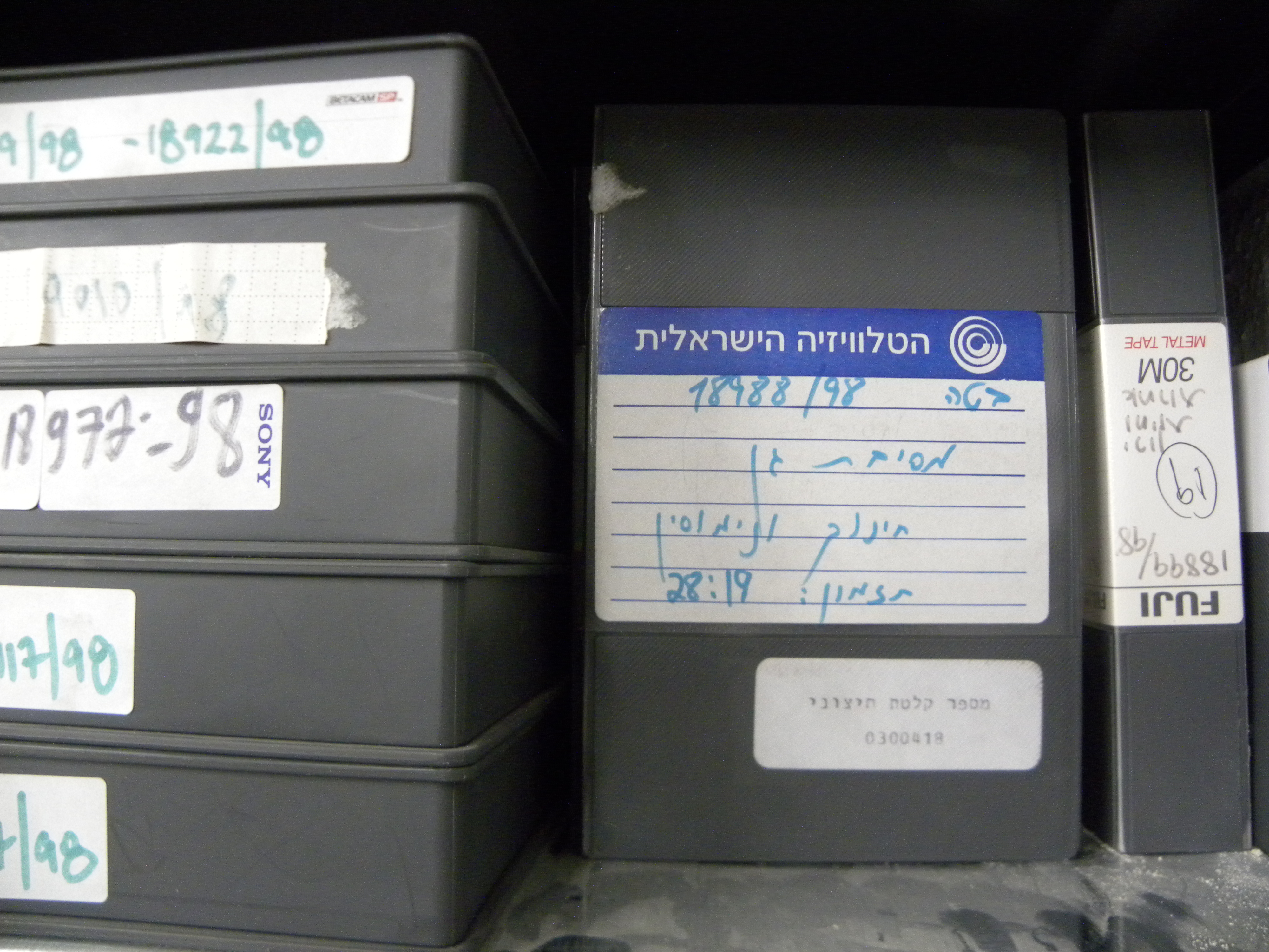 Israel Broadcasting Authority's archive of television recordings